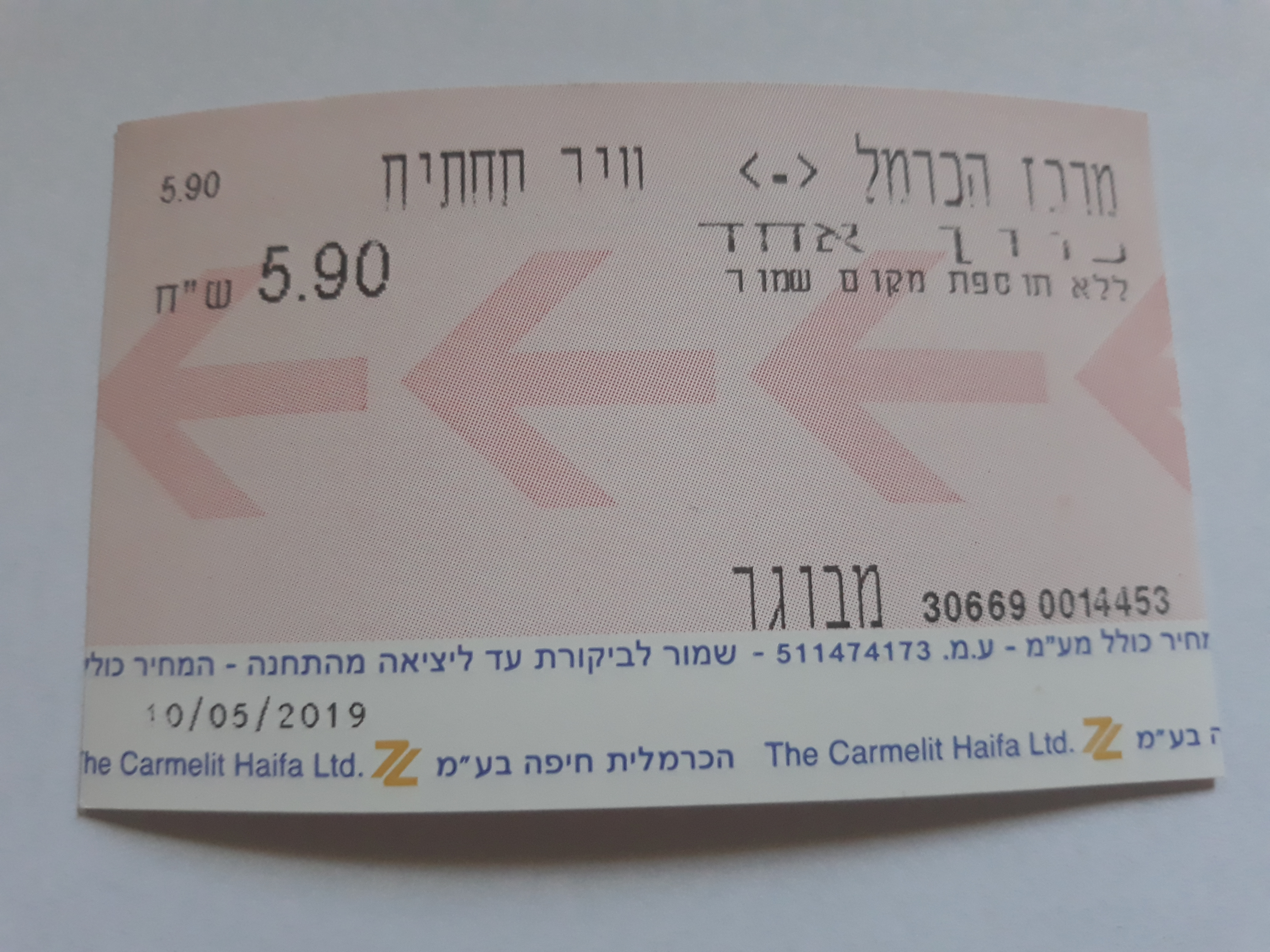 Carmelit subway in Haifa after its reopening in 2018